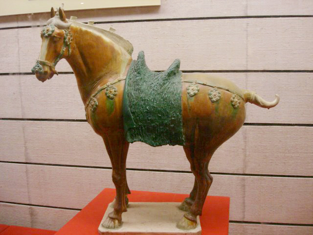 A sancai pottery horse from the tomb of Crown Prince Yide (Li Chongrun) of the Chinese Tang Dynasty, early 8th century